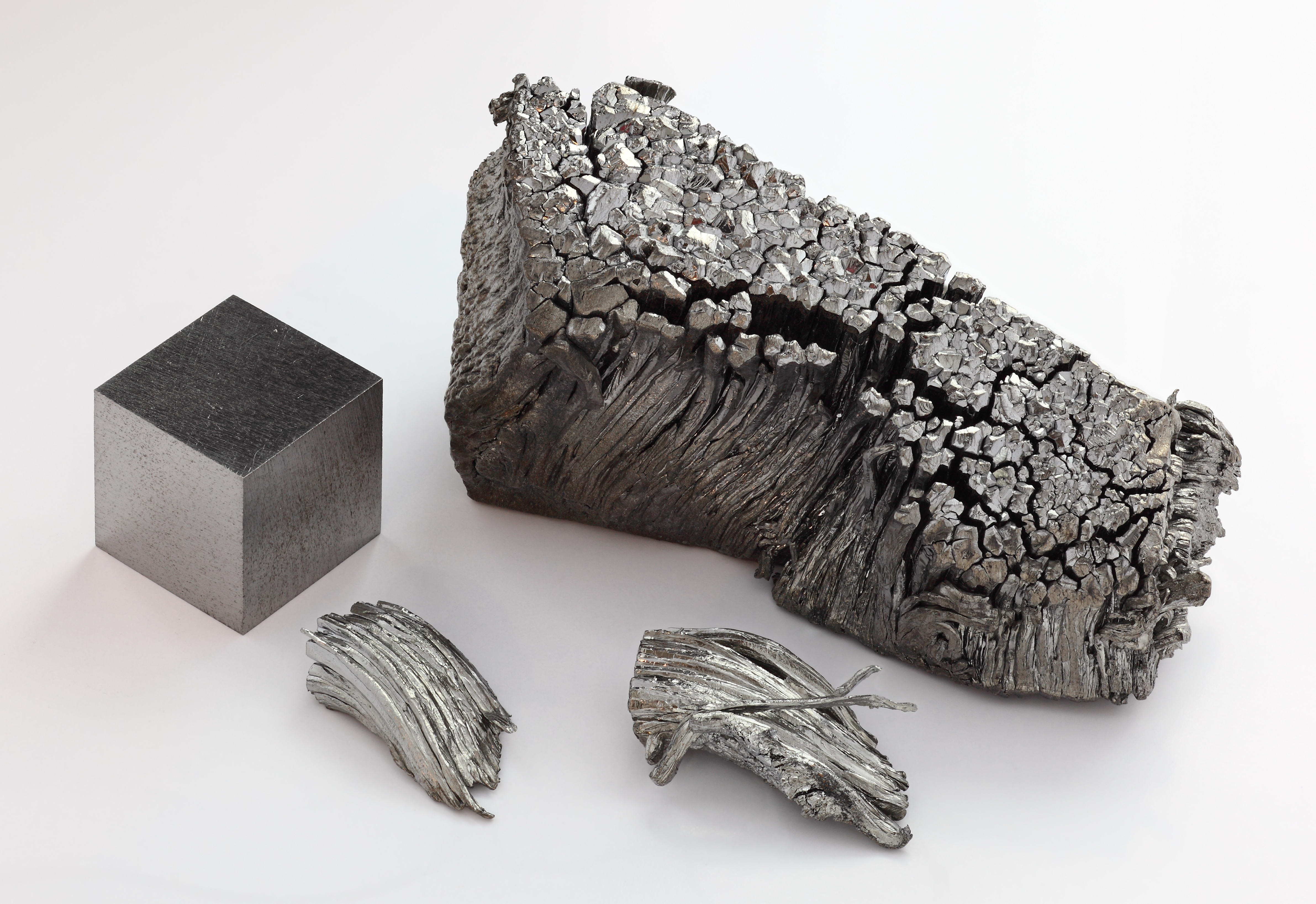 Thulium, sublimed-dendritic, high purity 99.99 % Tm/TREM. As well as an argon arc remelted 1 cm3 thulium (99,9 %) cube for comparison.